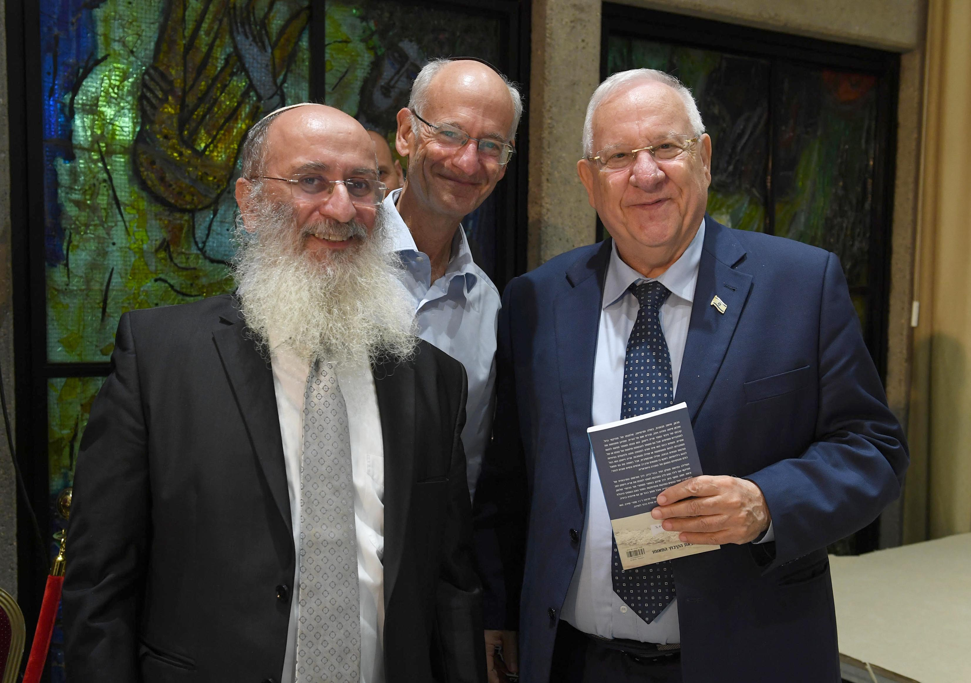 President Reuven Rivlin and his wife host the Fourteenth Bible Lesson in Project 929. Sunday, September 17, 2017. Photo Credit: Mark Neyman / GPO.